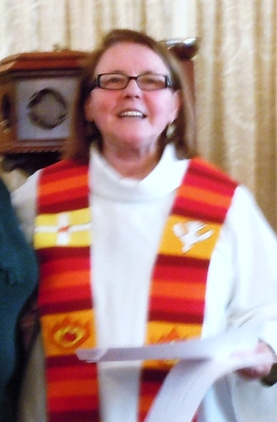 Pastor Jane Donnelly at her 2011 Installation